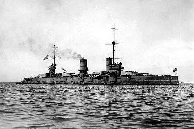 Battleship Poltava, 1915.